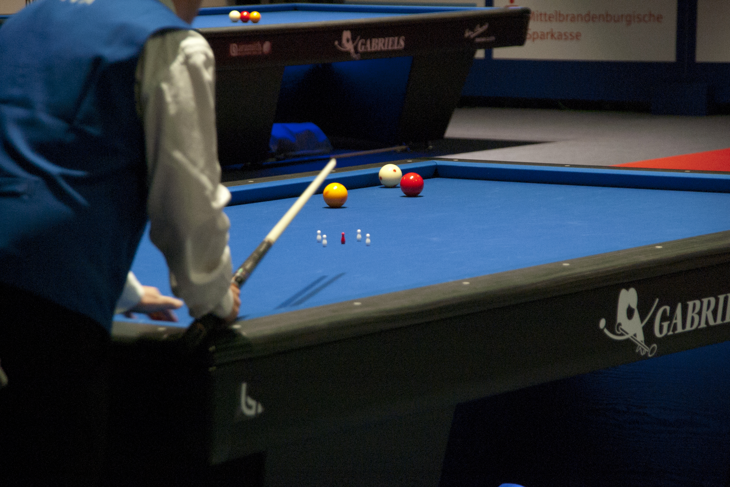 The making of this document was supported by the Community-Budget of Wikimedia Germany. European Carom Billiards Championships 2015